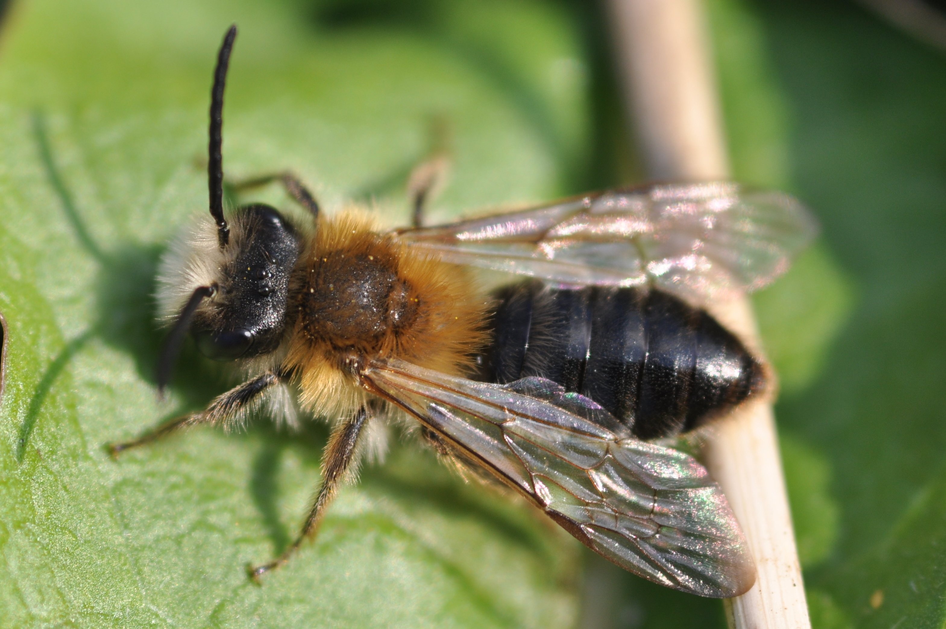 Andrena nitida male in Altona, Hamburg.